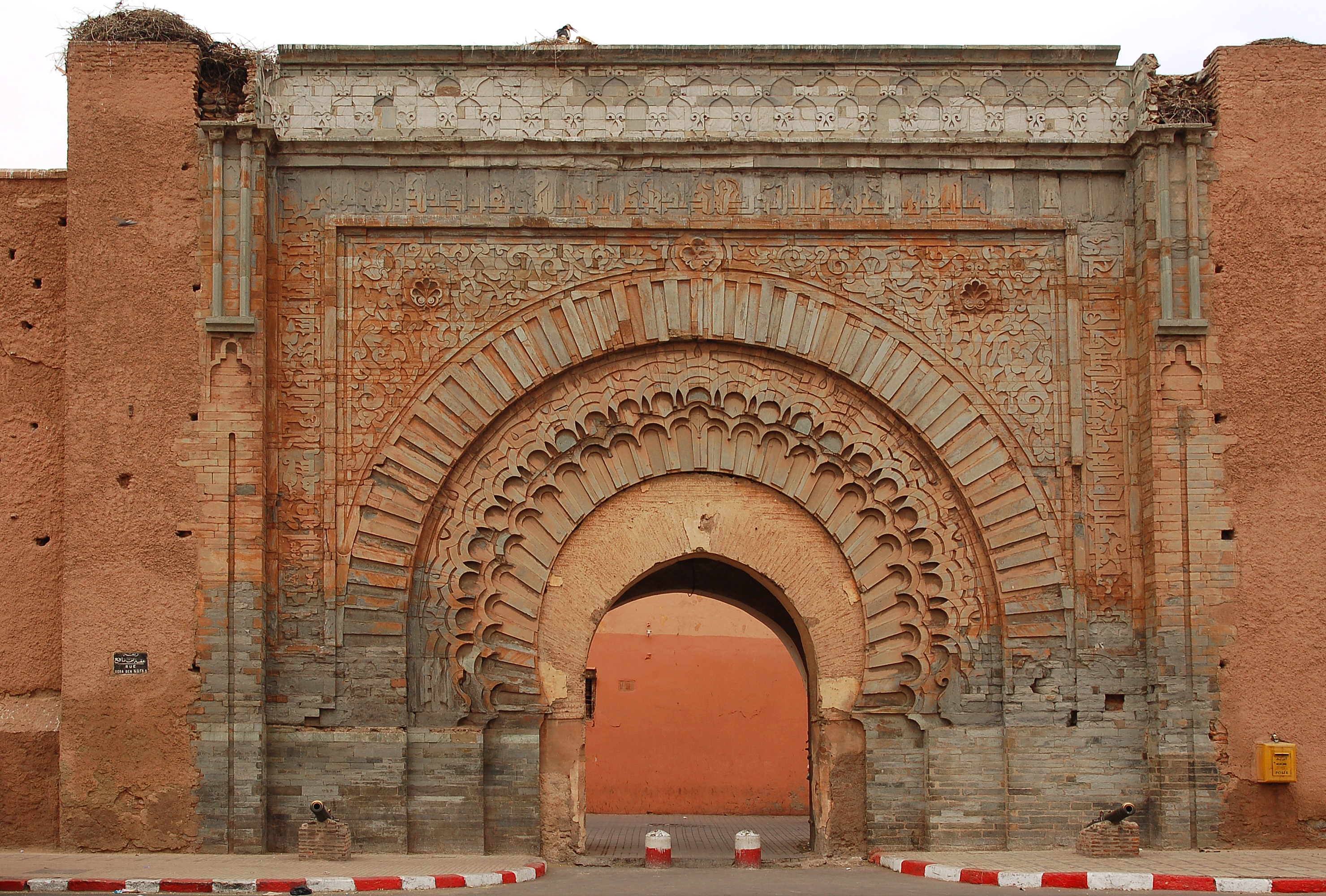 Maroc Marrakech city Bad Agnou door